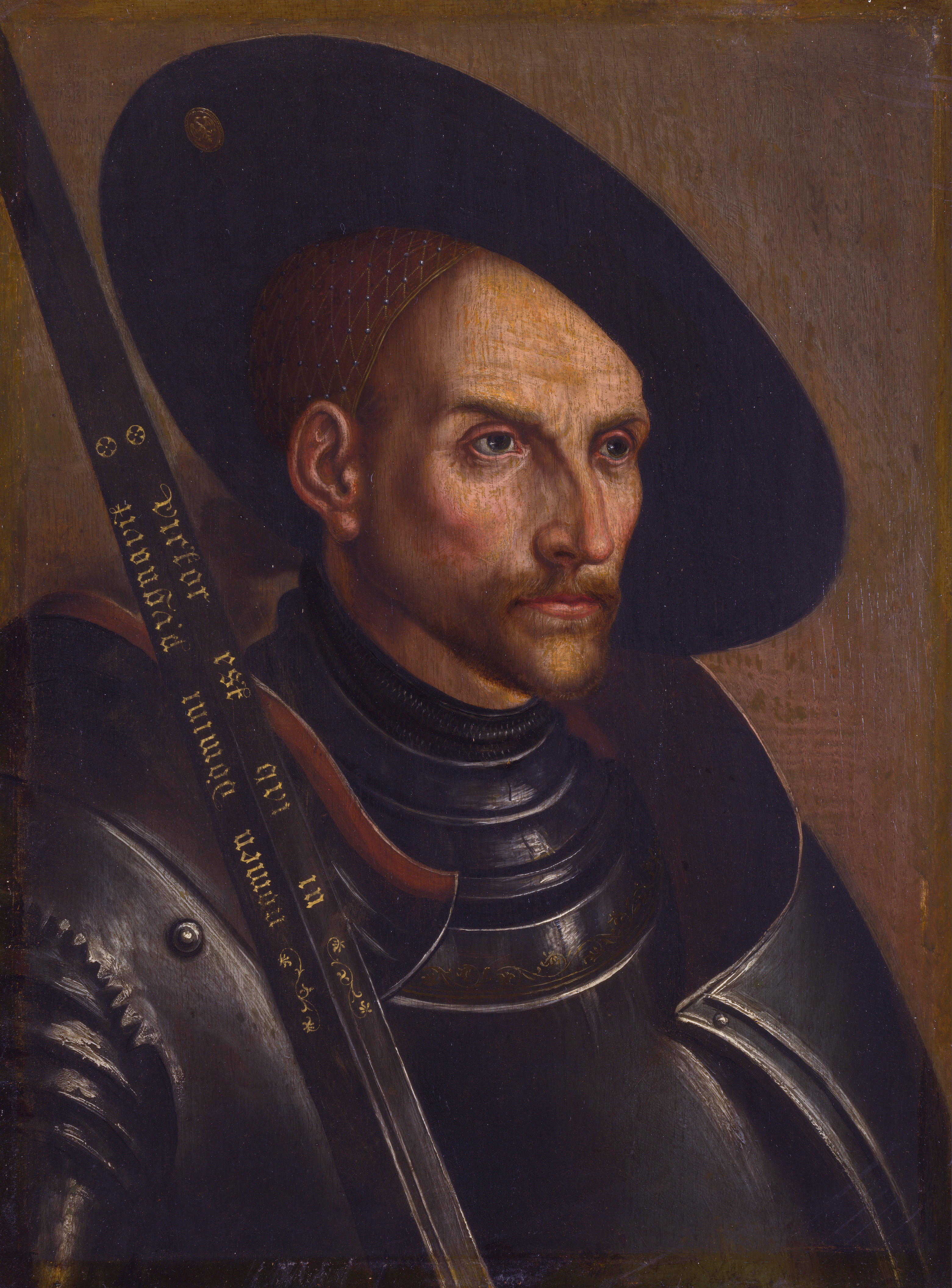 Edzard the Great, Count of East Friesland